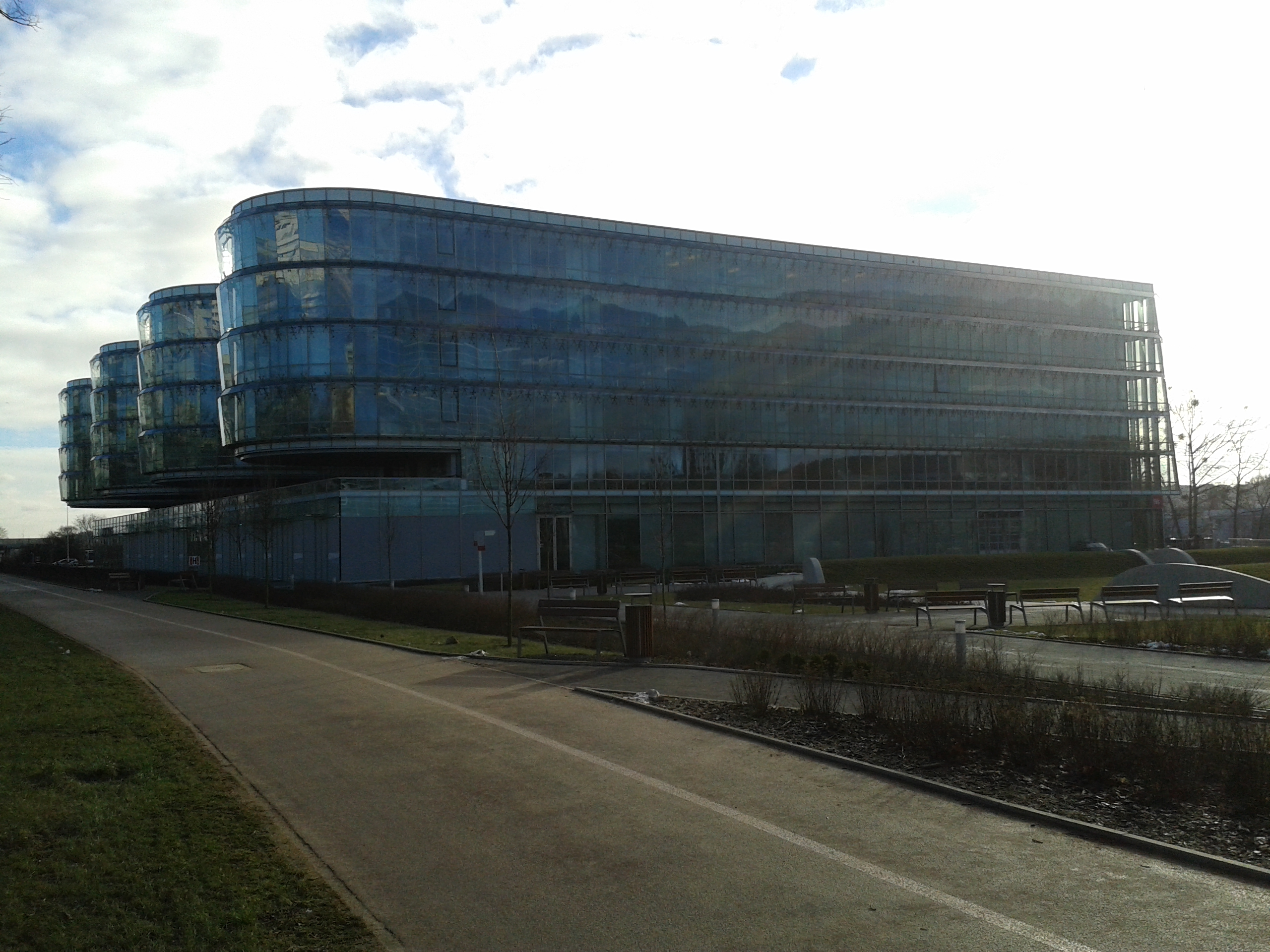 Pomeranian Science park IV